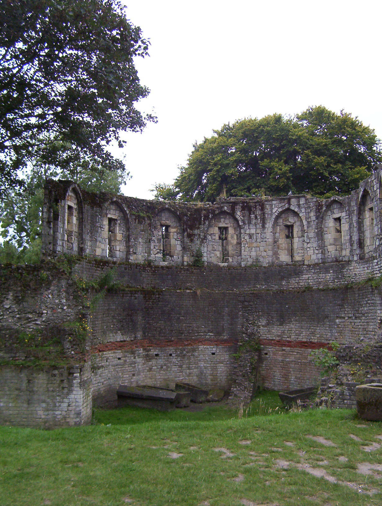 Inside view the Multangular Tower in Museum Gardens York, the corner tower of the Roman Fort Eboracum with a medieval stonework including arrow slits added to the top.